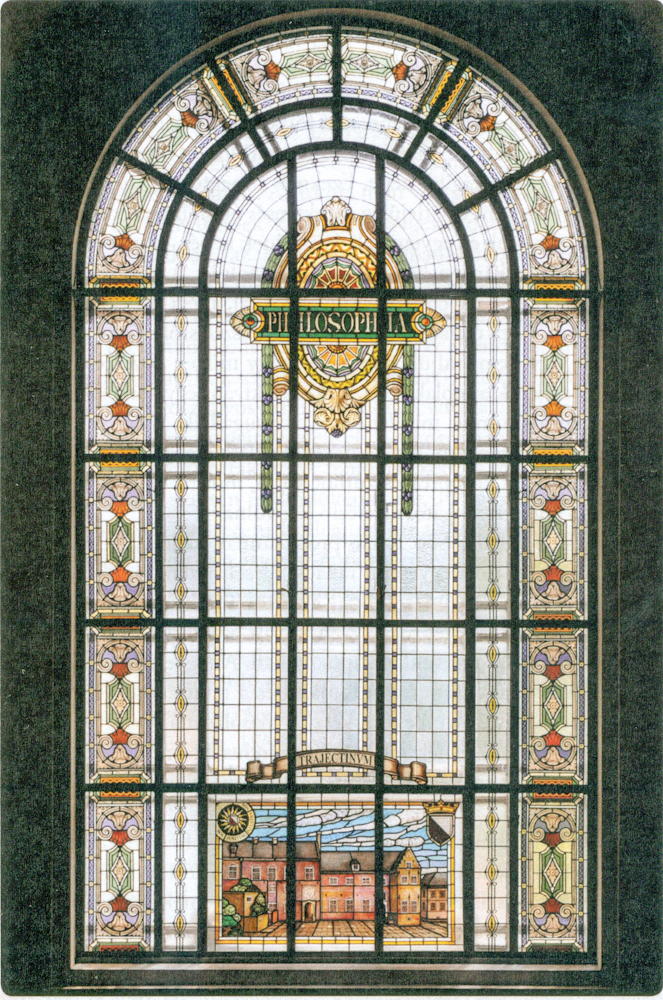 Stained_glass_window_in_the_University_of_Debrecen_depicting_the_University_of_Utrechtlabel QS:Len,"Stained_glass_window_in_the_University_of_Debrecen_depicting_the_University_of_Utrecht" label QS:Lhu,"Utrecht ábrázolása a Debreceni Egyetem festett üvegablakán"